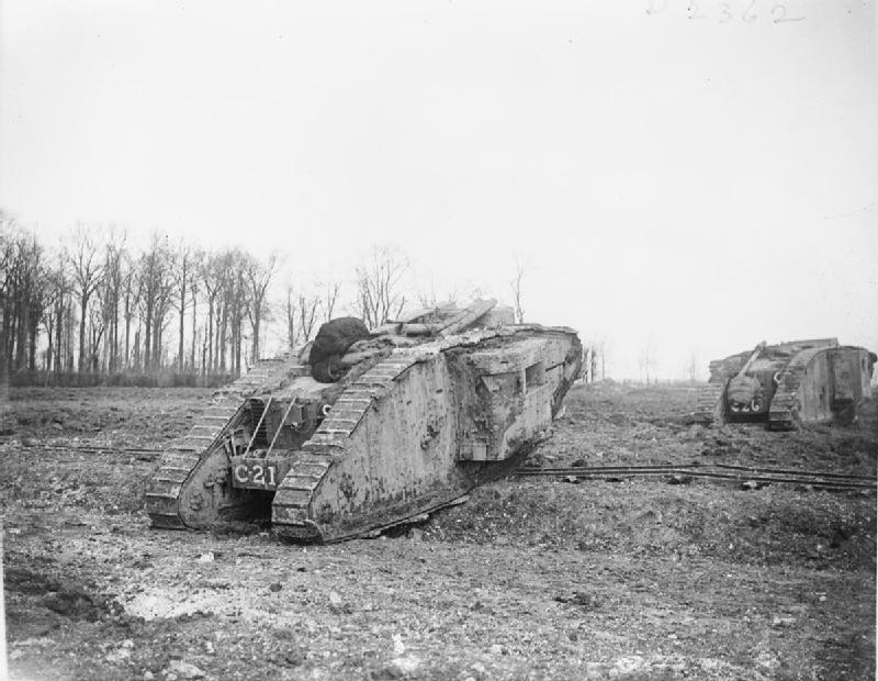 IWM caption : "Two 'C' Battalion Mark II Tanks (C21 and C26) go into action during the Battle of Arras. They are fitted with torpedo booms for unditching."